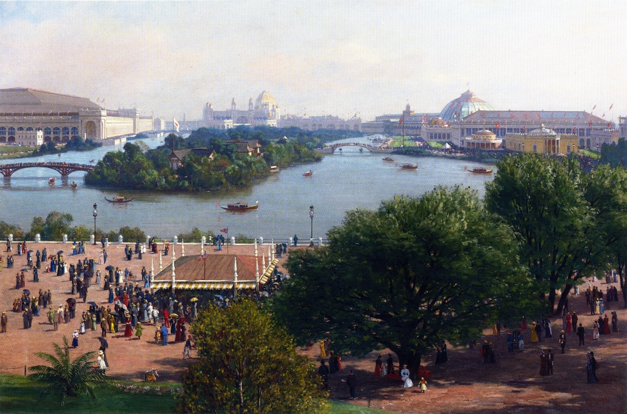 World's Columbian Exposition, Chicago 1893